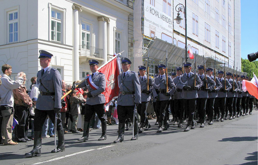 The Policja's contingent at the 3rd May Constitution Day Parade (2007) in Warsaw, Poland